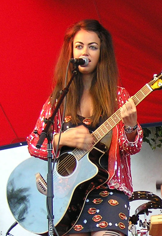 Danish pop-folk singer Aura Dione with band at stage, Gæstgiveren, Allinge, Bornholm, Denmark